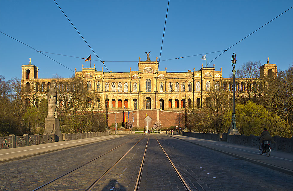 Maximilianeum in Munich-Haidhausen - state parliament Bavaria